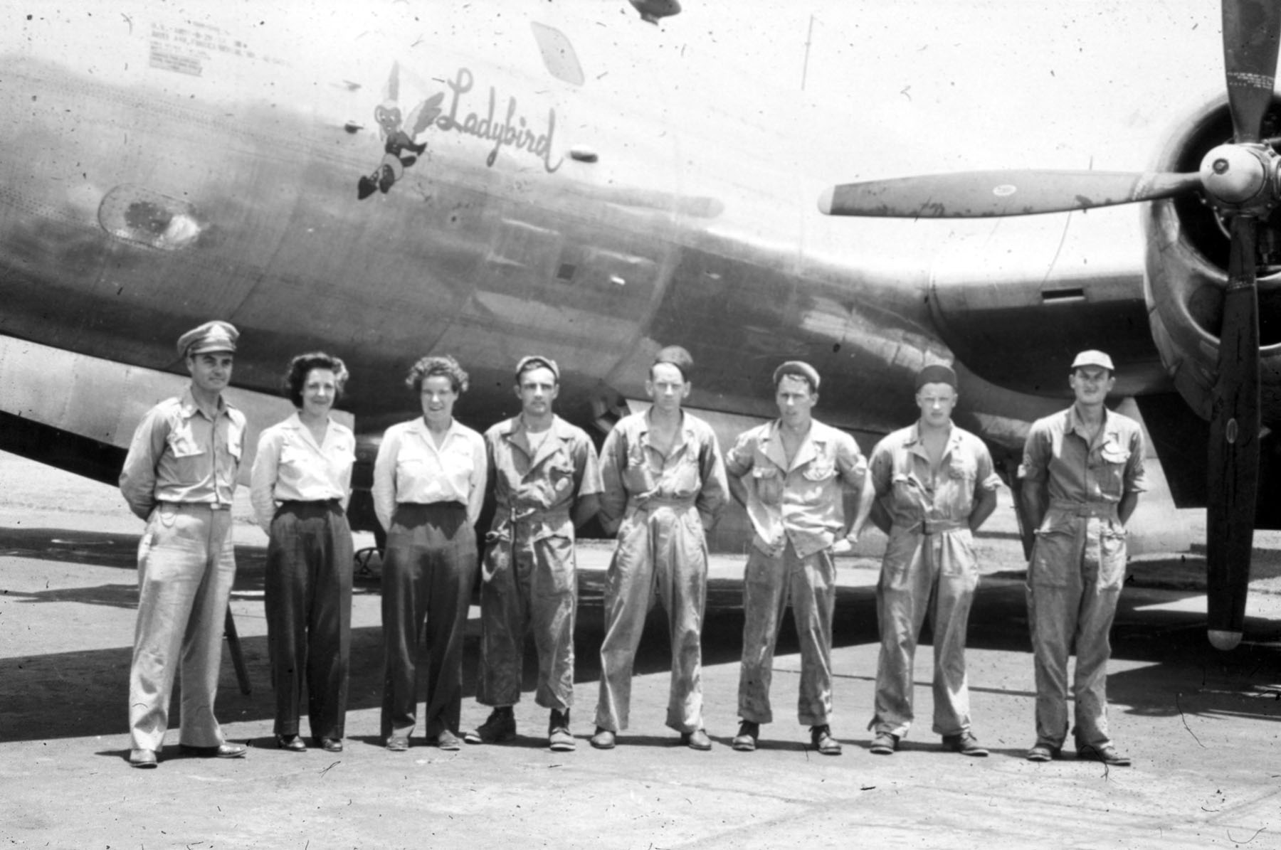 Dorothea Johnson Moorman (2nd from left) and Dora Dougherty Strother (third from left) in front of B-29 "Ladybird" with Lt. Col. Paul W. Tibbets, Jr. (1st from left) and B-29 crew. Under Jacqueline Cochran, a training program for women pilots was approved on Sept. 15, 1942, as the Women's Flying Training Detachment (WFTD). The 23-week training program begun at Houston included 115 hours of flying time. Training soon moved to Avenger Field at Sweetwater, Texas, and increased to 30 weeks with 210 hours of flying. Trainees were between 21 (later dropped to 18) and 35 years old, and already had at least 200 hours pilot experience (later reduced to 35 hours). Their training emphasized cross country flying with less emphasis on acrobatics and with no gunnery or close formation flight training. Johnson and Strother were the only two women to fly the B-29, trained by Tibbets.